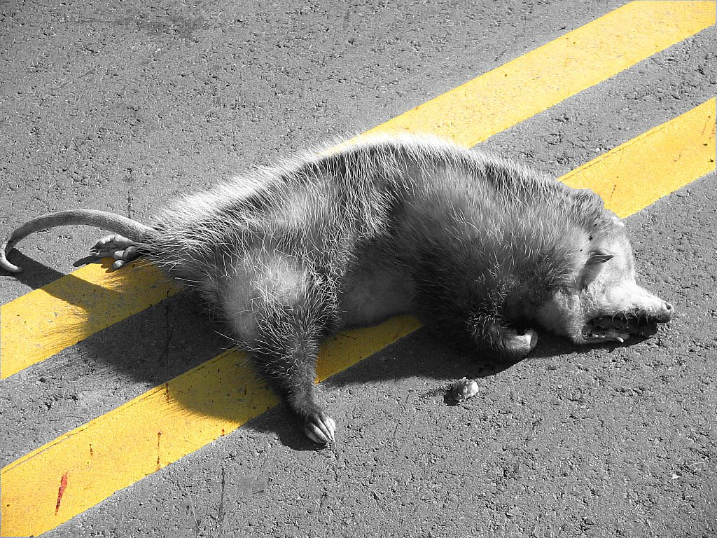 This was on Vine under the 27th St. Bridge.Sin City Opossum